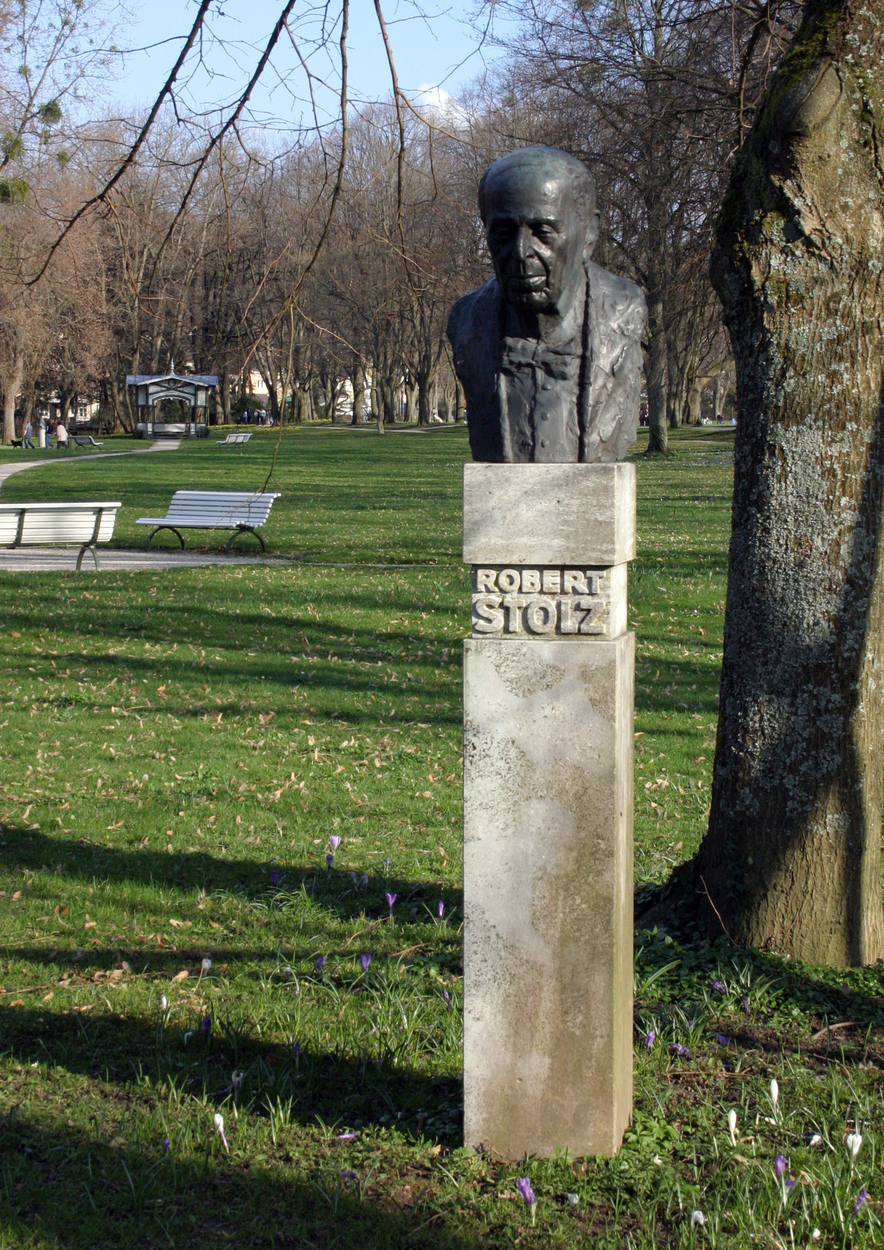 Bust of the composer Robert Stolz in the Lichtentaler Allee in Baden-Baden.